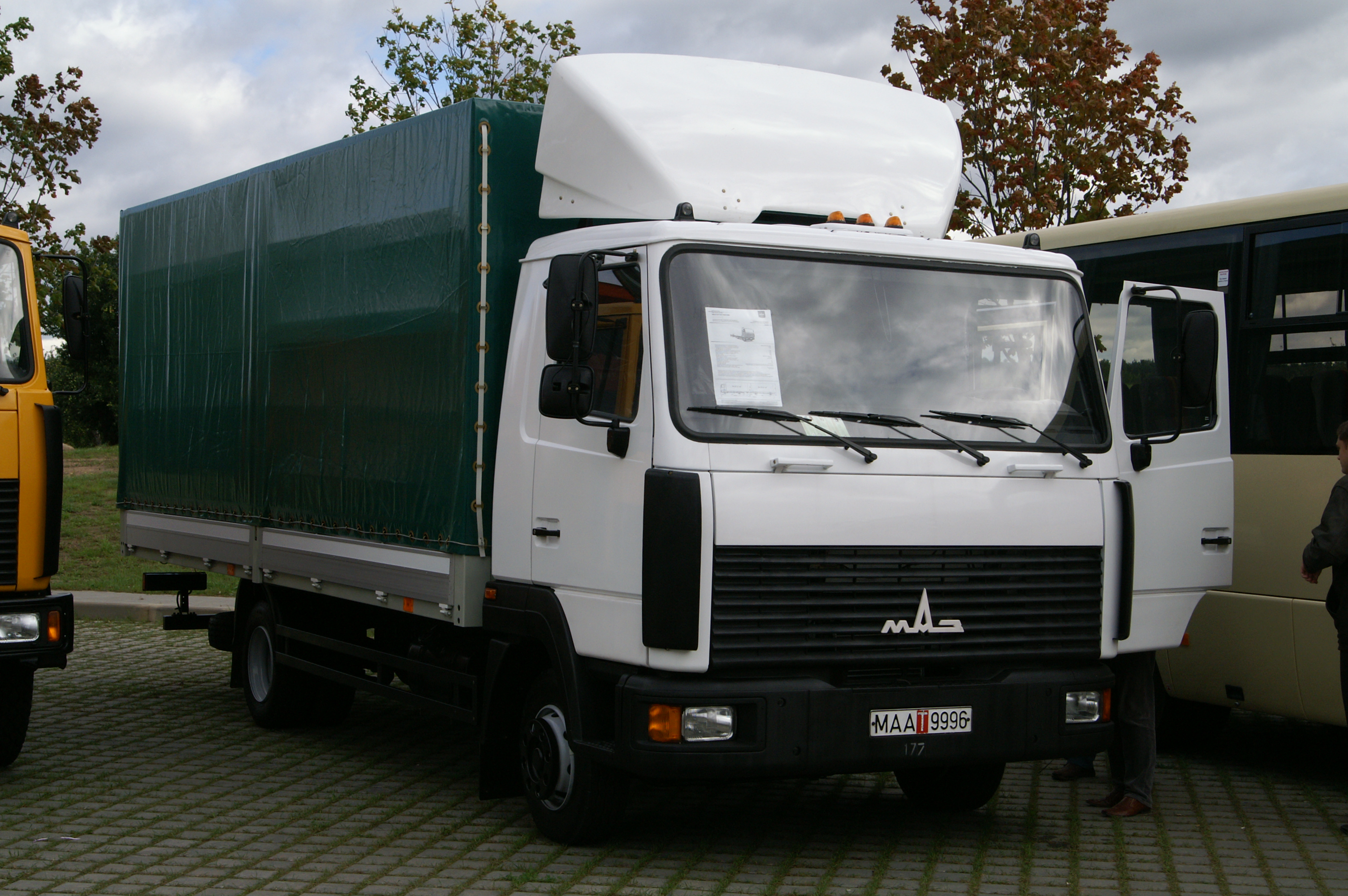 MAZ-437141 roadtrain in Minsk